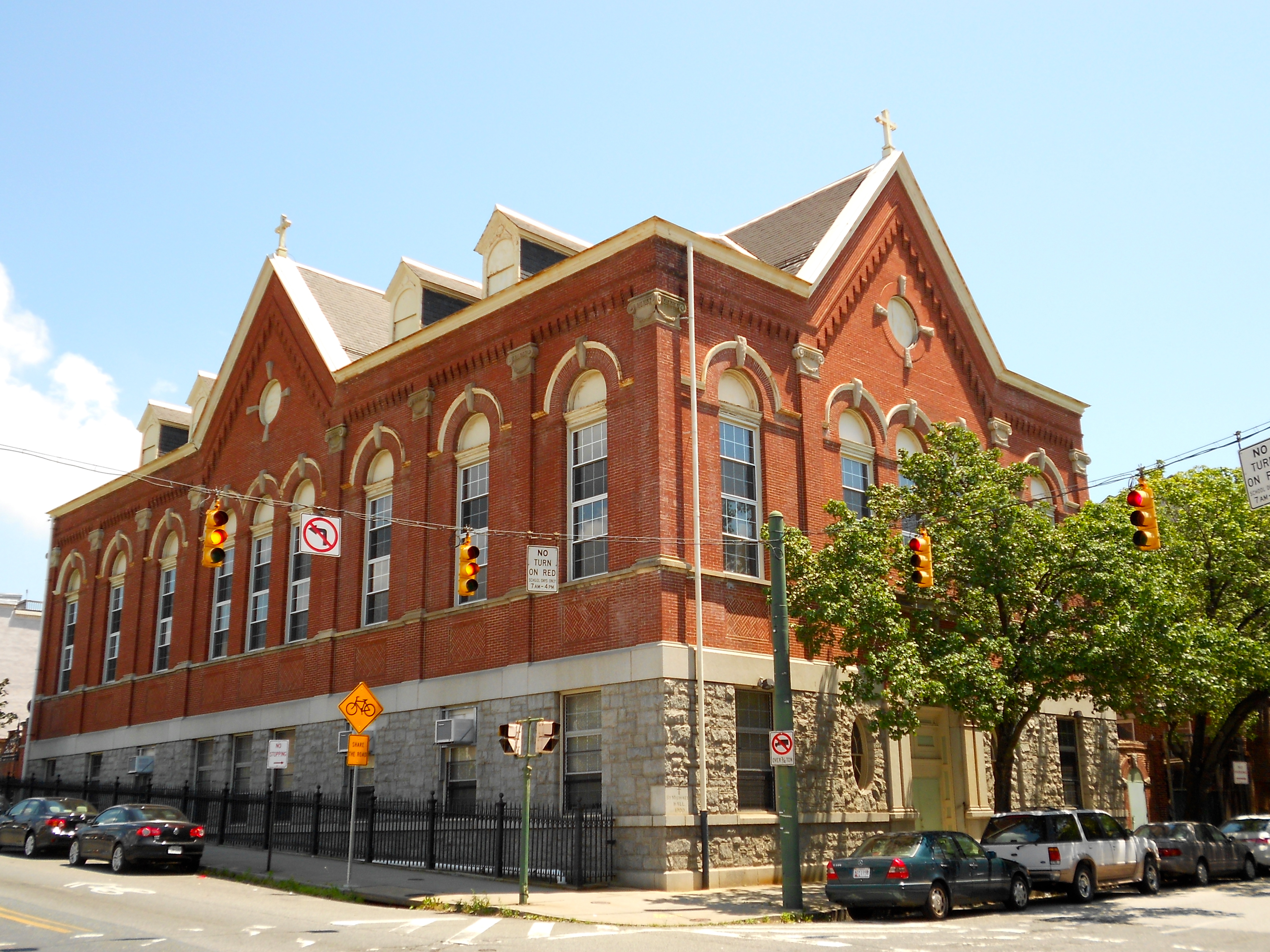 Parish Hall of St. Micheal's Church in Baltimore. On the NRHP